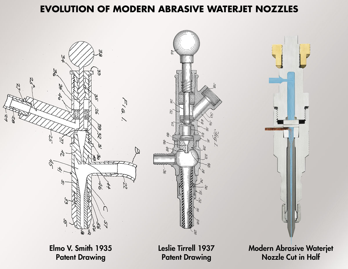 A comparison of original patent drawings from the 1930s and a modern abrasive waterjet nozzle cut in half, showing the evolution of the design.